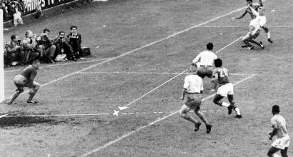 Garrincha making an assist for Vavà during the 1958 World Cup final